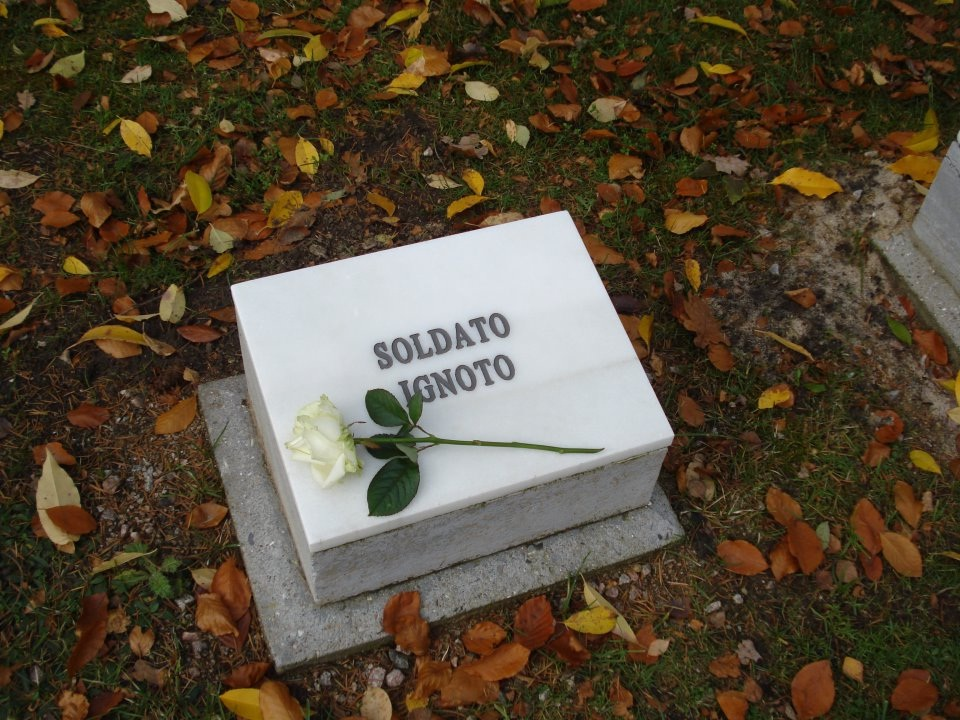 Grave of an unidentified soldier on the Italian war cemetery in Hamburg-Öjendorf.